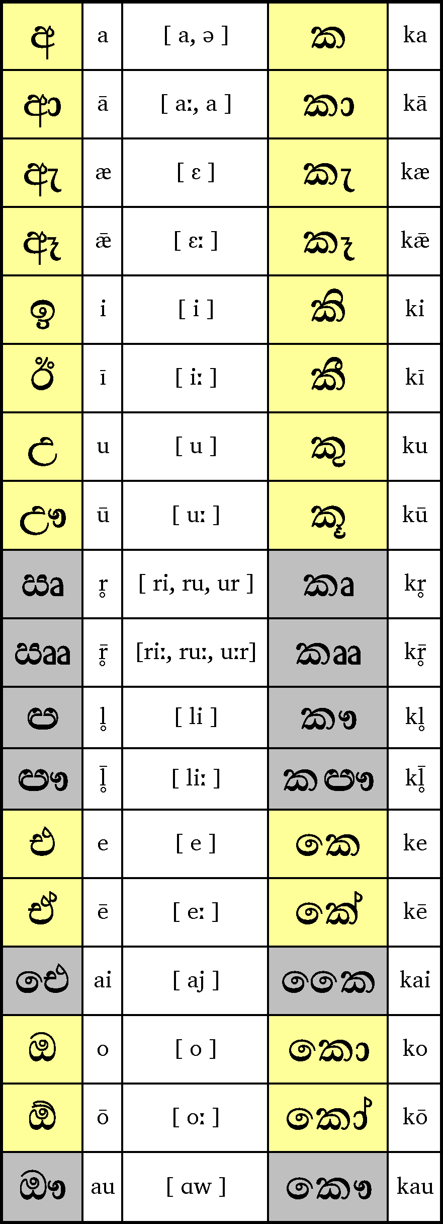 chart of vowels and CV combinations of Sinhala script